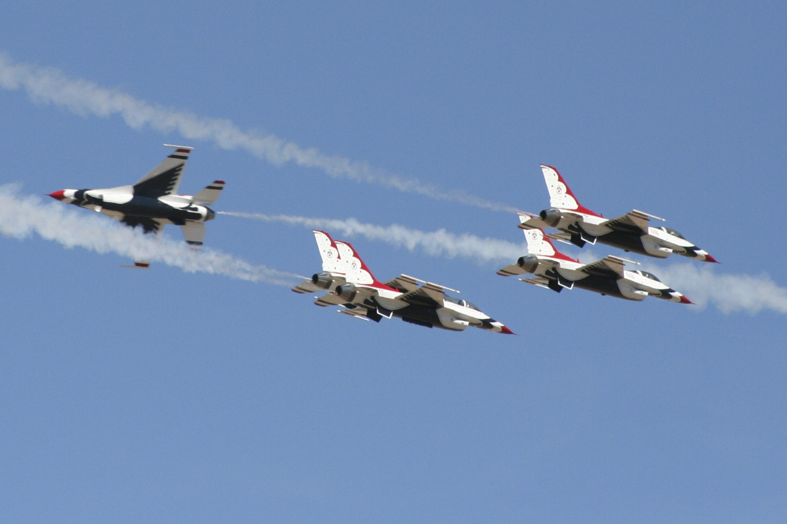 Thunderbirds at the 2006 Reno Air Show & Races